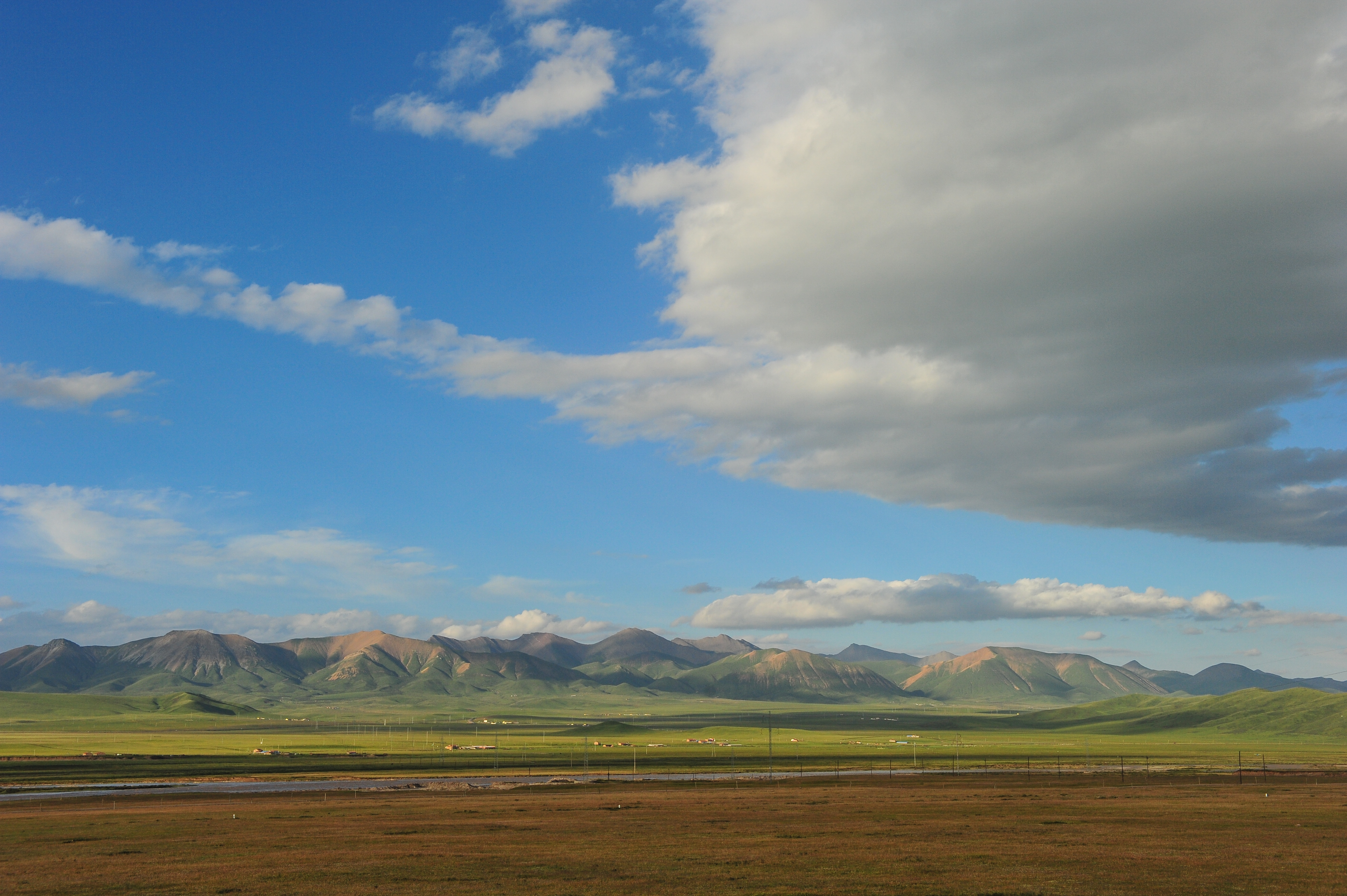 Scenery of Qilian Mountains. Photograph taken in Mole, Qilian County, Qinghai.